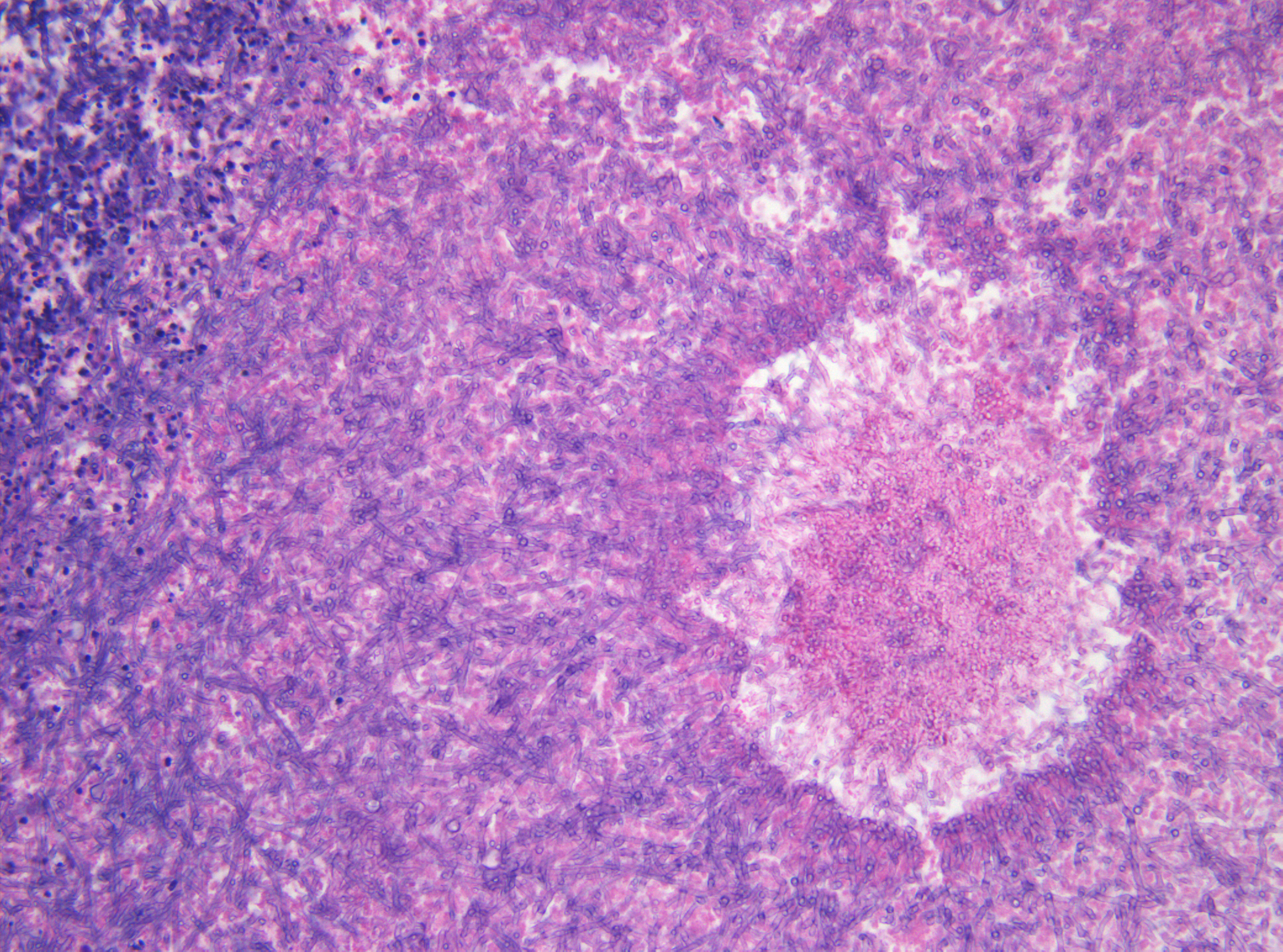 Histopathology of Aspergilloma. H&E staining. Magnification 200x